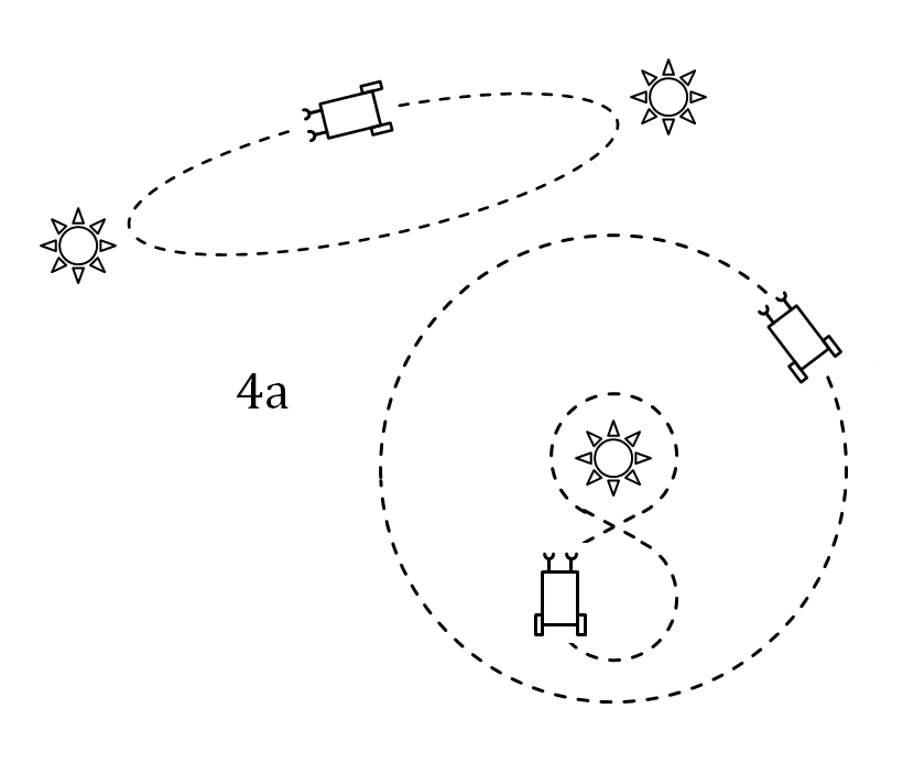 Braitenberg vehicle 4a